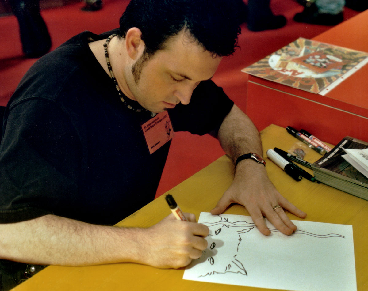 Darick Robertson at the Comic-Salon Erlangen 2002.